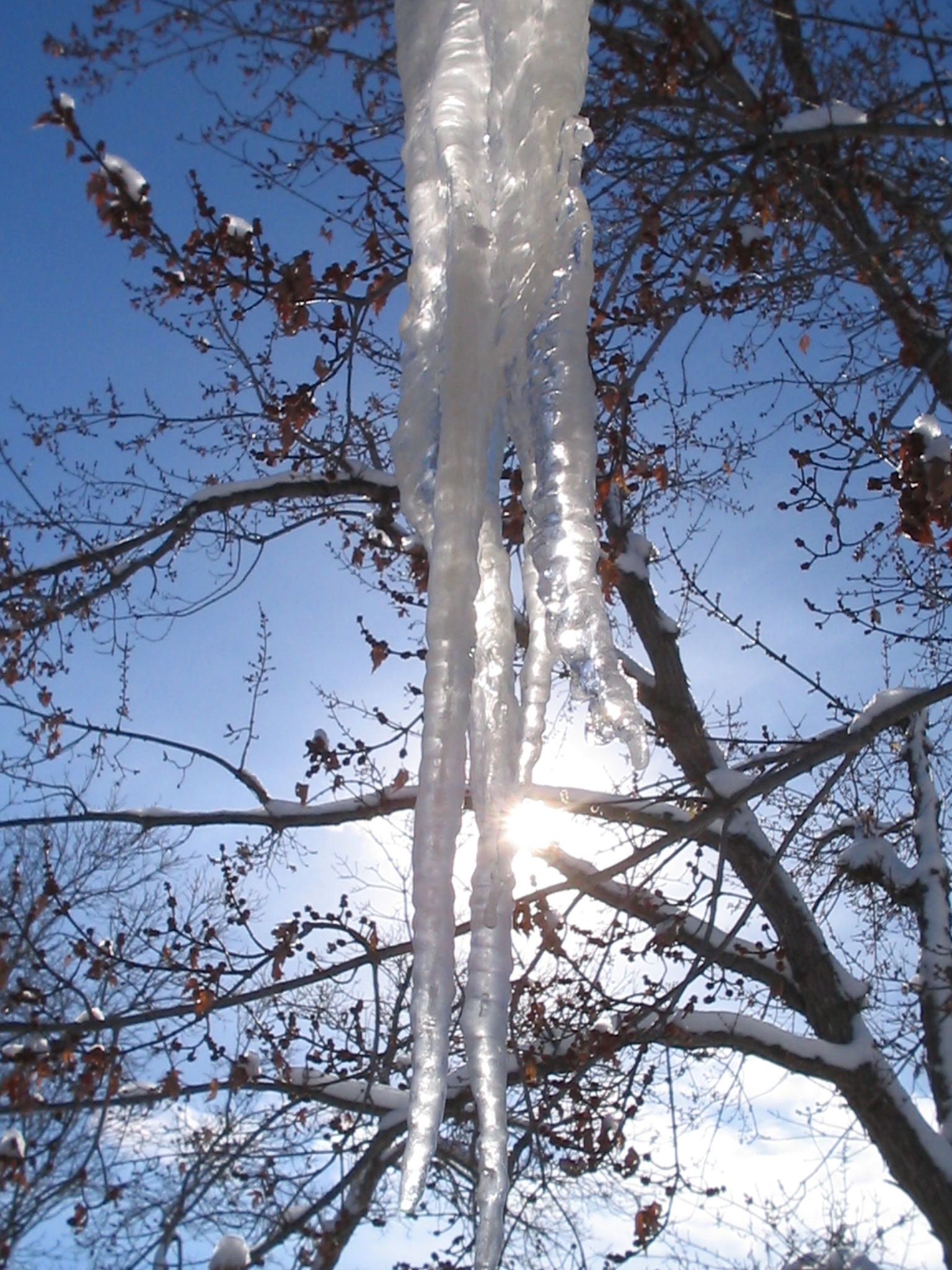 Ice Stalactite